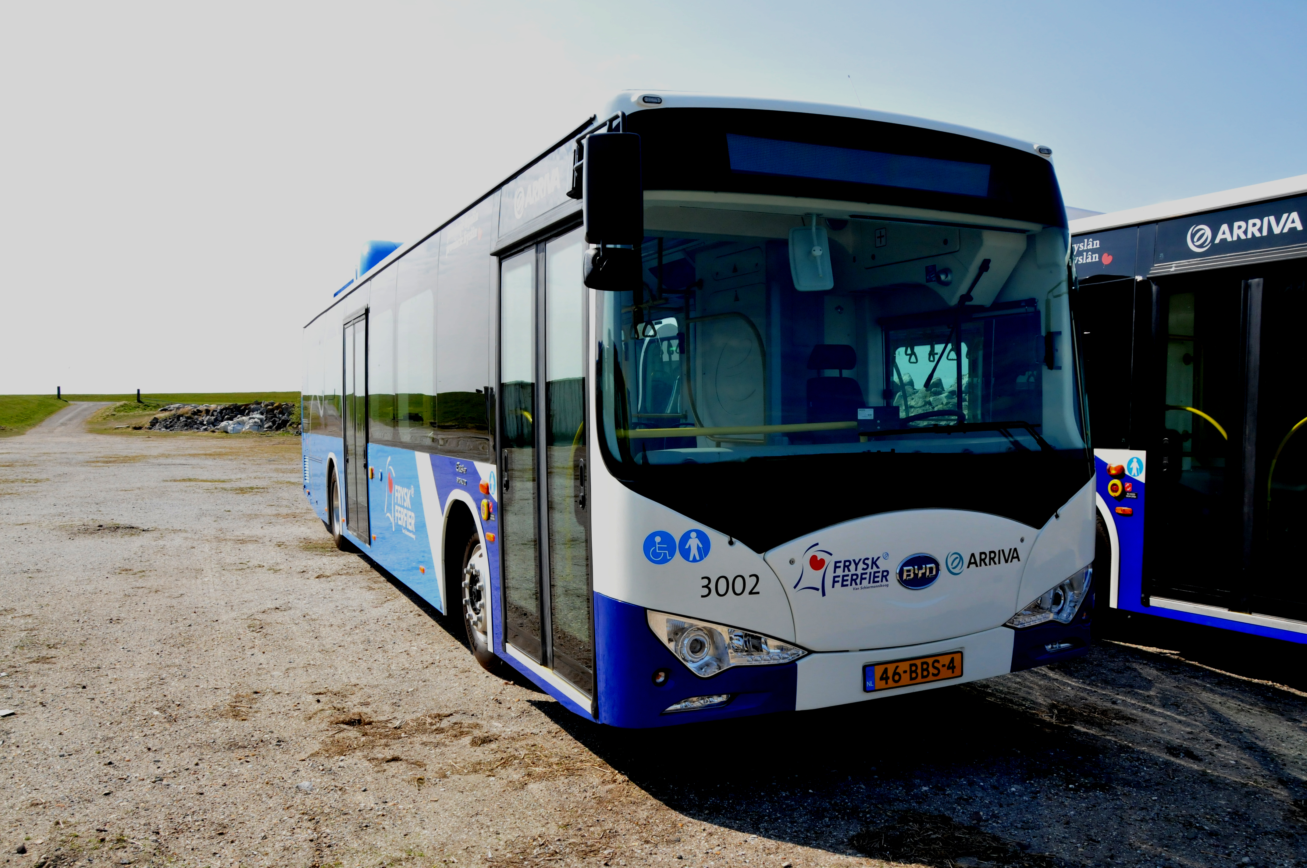 Arriva bus 3002 on the island of Schiermonnikoog; electric K9 bus by Chinese manufacturar BYD. Six of these were bought by the Dutch province of Frysland for use on this island.